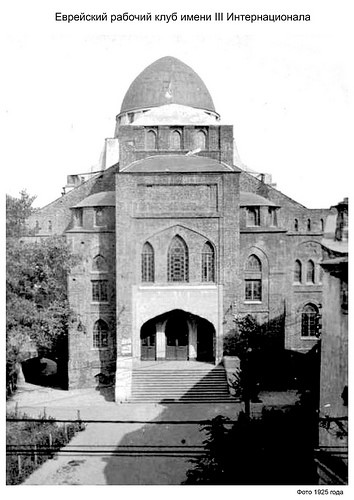 Choral Synagogue of Kharkov in Ukraine